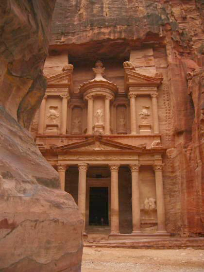 The "Treasury" at Petra. It is called the Treasury, because the local bedouin mistakenly believed that there was treasure hidden somewhere inside.